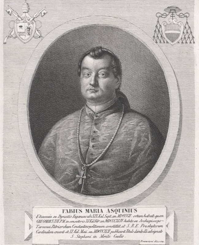 Kardinal Fabio Maria Asquini (1802-1878)